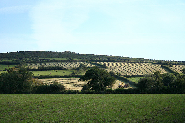 Altarnun: near South Carne Grass harvest. View towards the moor